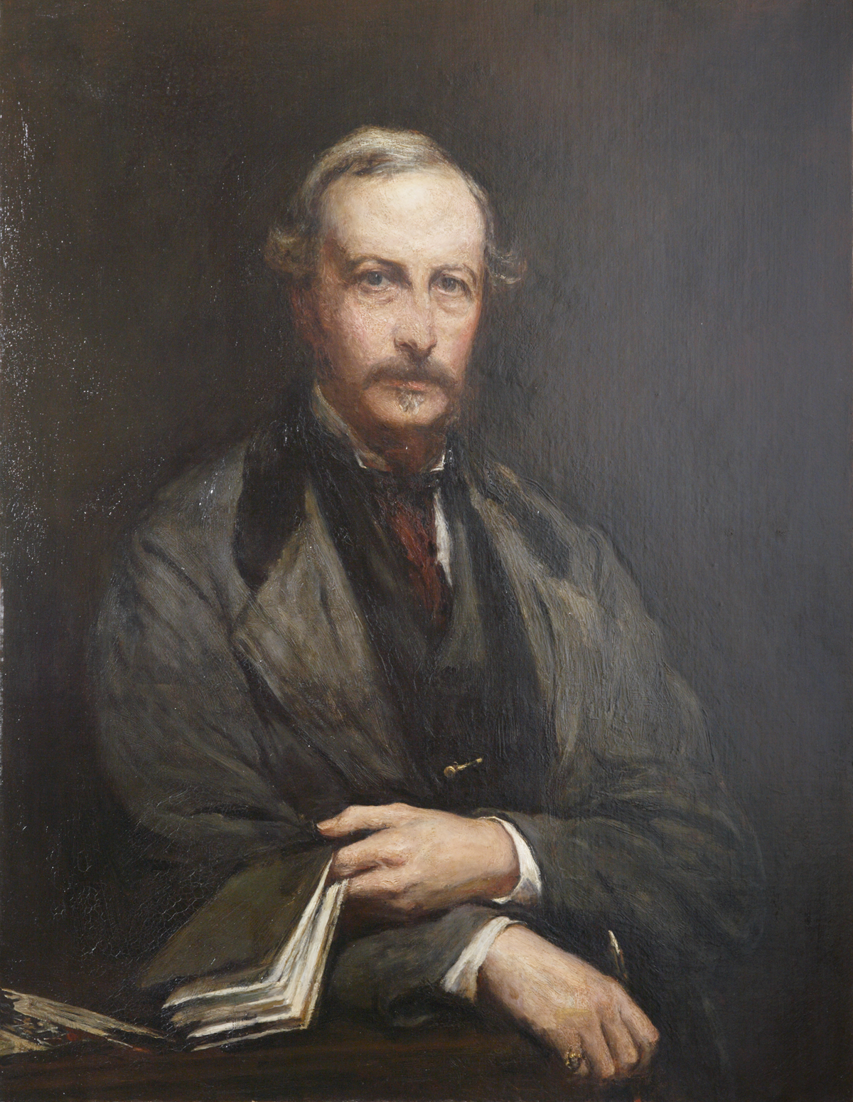 Sir John Walrond, 1st Baronet (1818-1889) of Bradfield House, Uffculme, Devon, Conservative MP for Tiverton in 1866, President of the Royal Devon and Exeter Hospital (1874), and Benefactor. Portrait by George Frederic Watts (1817–1904), oil on canvas, 91 x 70.5 cm. Commissioned by the Trustees of the Royal Devon and Exeter Hospital. Collection of the Royal Devon and Exeter Hospital, Exeter, Devon, ref. PCF23